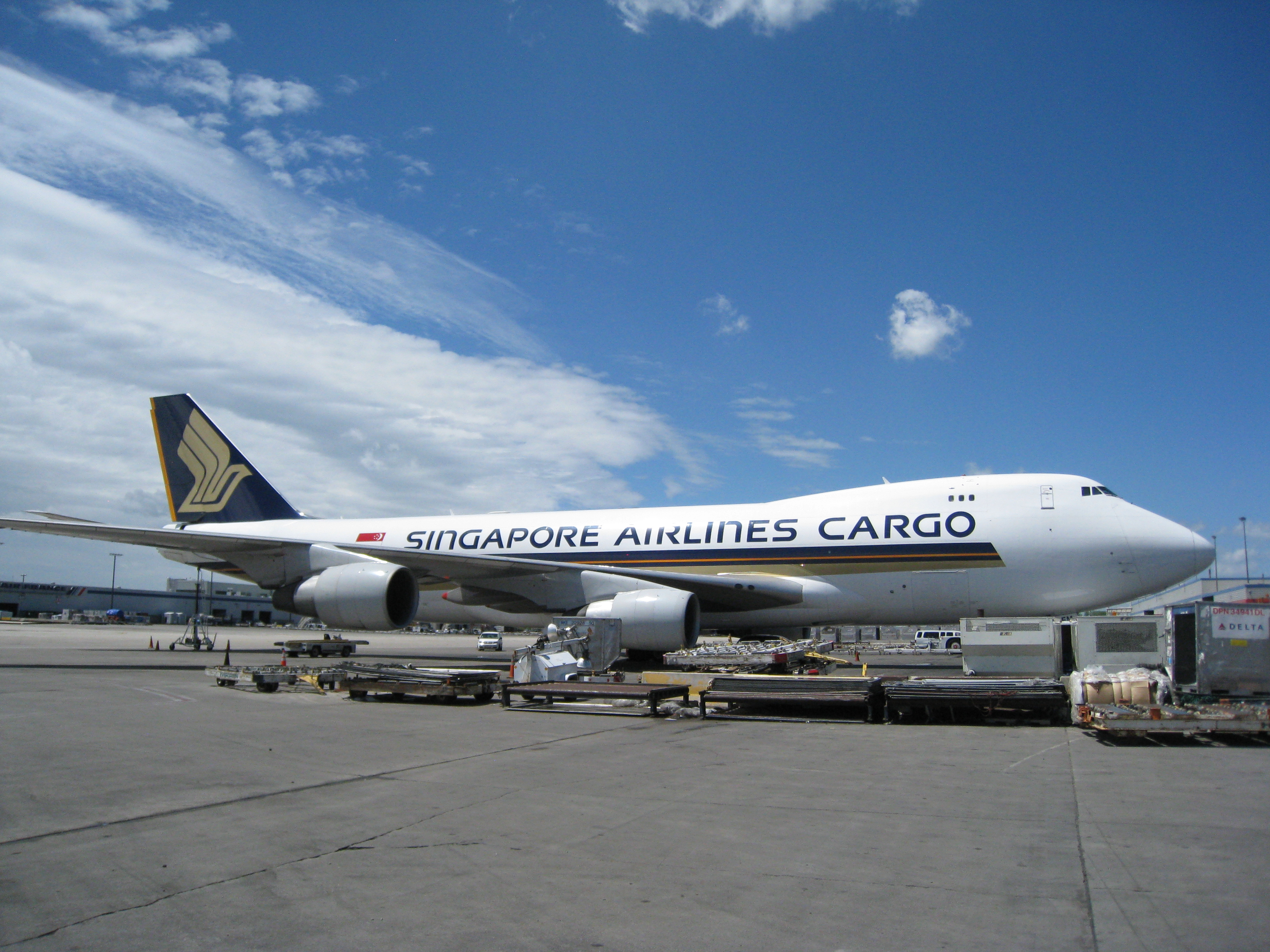 SIA Cargo B747-400F in new livery. Parked in Chicago.